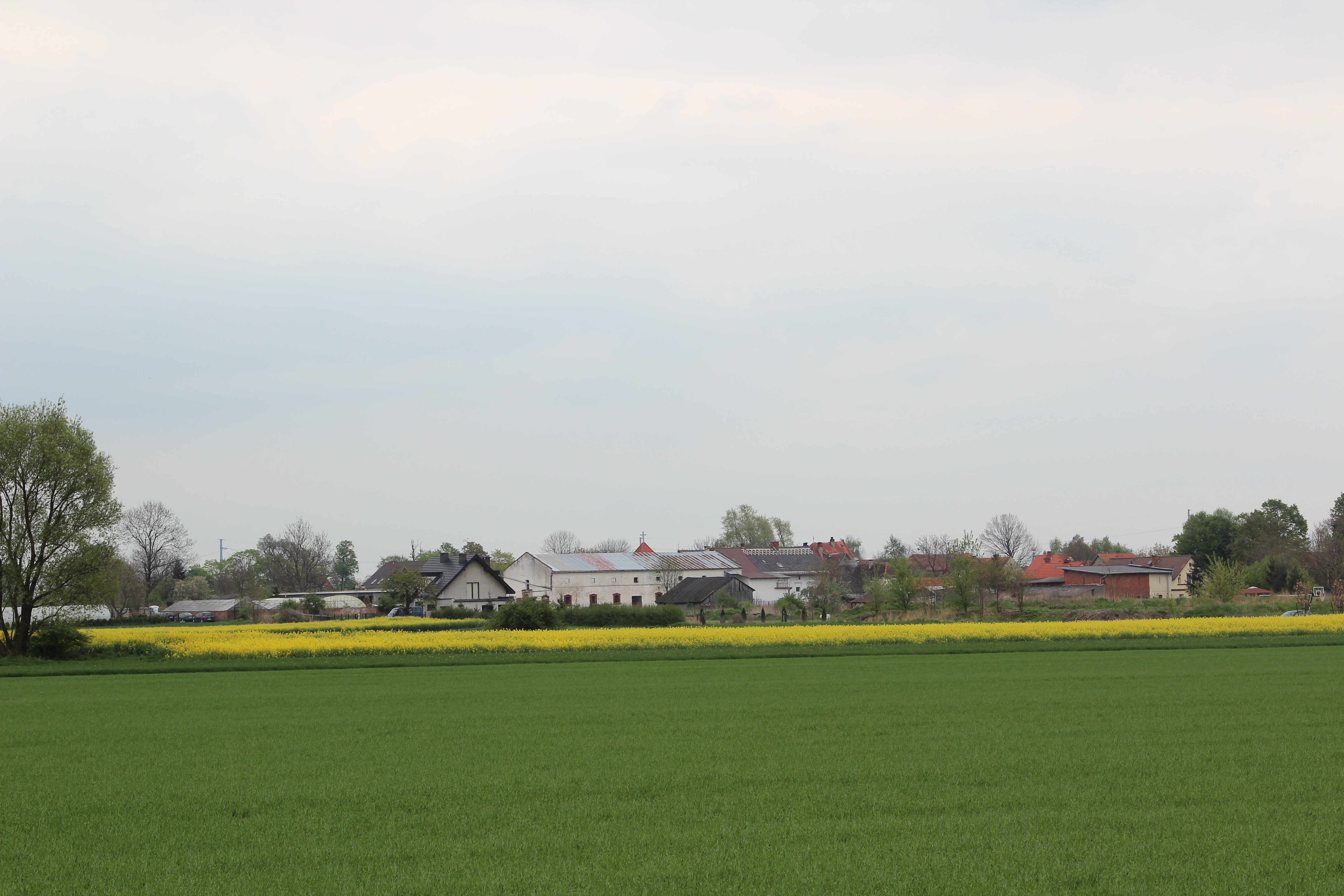 Category:Komorowice, Wrocław County